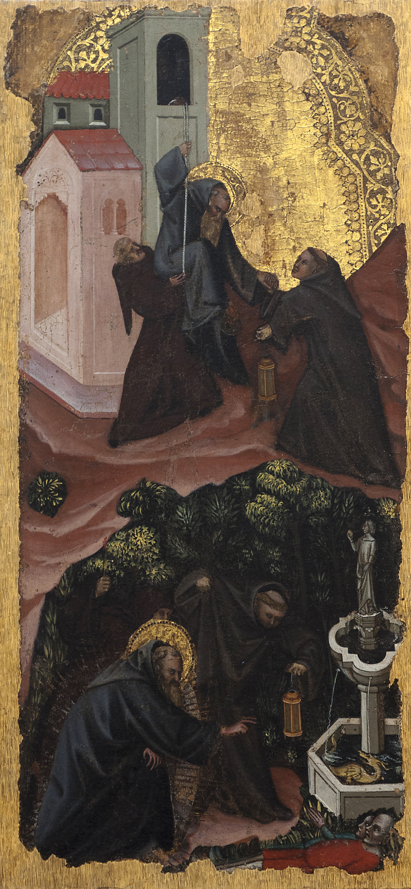 Vitale da Bologna (14th century) -Four tales on Anthony of Egypt (1340) - Bologna Pinacoteca Nazionale